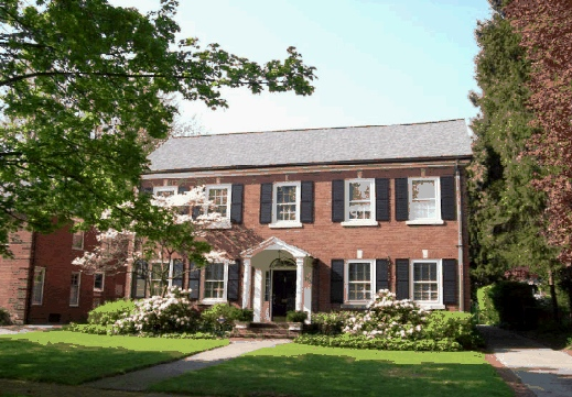 Facade view of Georgian Revival style Sutton Residence designed in 1931 by Louis Kamper in Michigan. John R. Sutton, Jr & Paula Kling Sutton Residence, 175 Merriweather Road, Grosse Pointe Farms, Michigan.